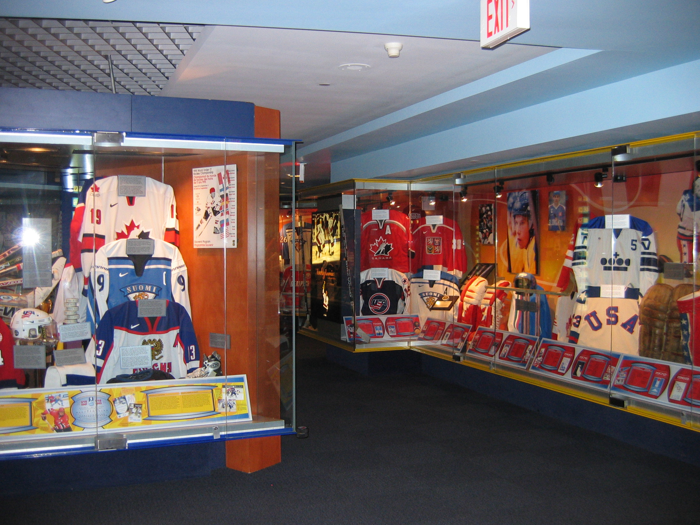 International hockey exhibits at the Hockey Hall of Fame